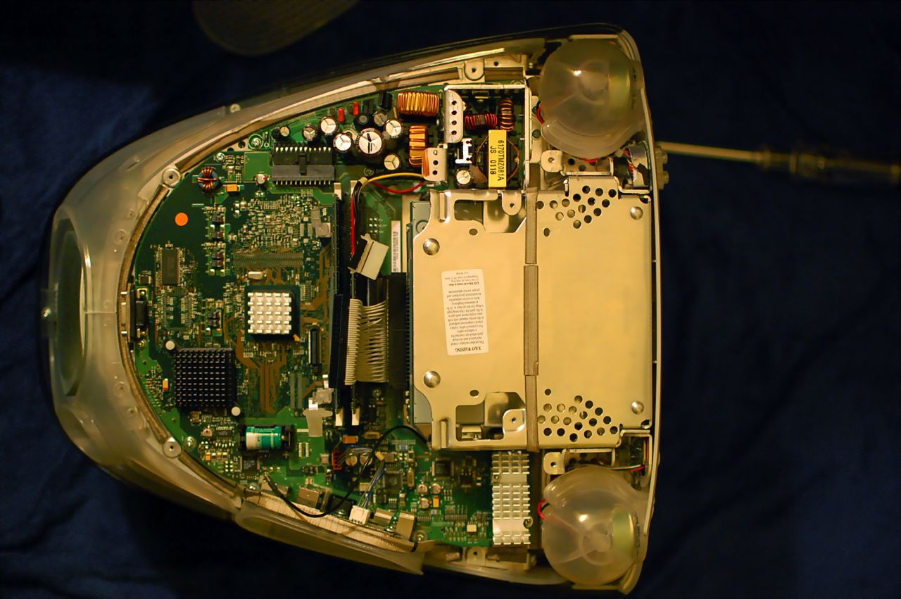 Motherboard of a 2001-era iMac G3 (seen from the bottom). The hard drive bay is prominently shown; behind the hard drive is the slot loading optical drive; to the left of the HD cables are the RAM sticks; to the left of those, the battery and what appear to be heat sinks for the CPU and GPU. The two sphere-like objects top and bottom are built-in speakers.